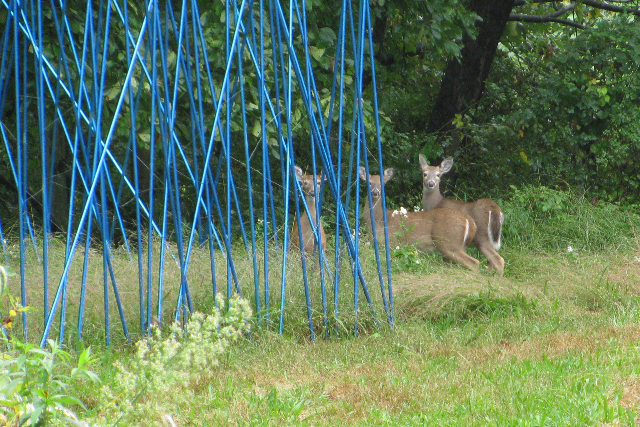 KEPT OUT Schuylkill Center for Environmental Education, Philadelphia, PA. 2009-2010. Part of Edible Landscapes, curated by Amy Lipton Kept Out consists of a pair of deer exclosures, the fenced areas to keep deer out: one built near the artist’s studio in a woodland in Pennsylvania’s Ridge and Valley region and the other at the woodlands edge of Schuylkill Center for Environmental and Education in the Piedmont ecosystem. Both sites face a great deal of deer pressure.